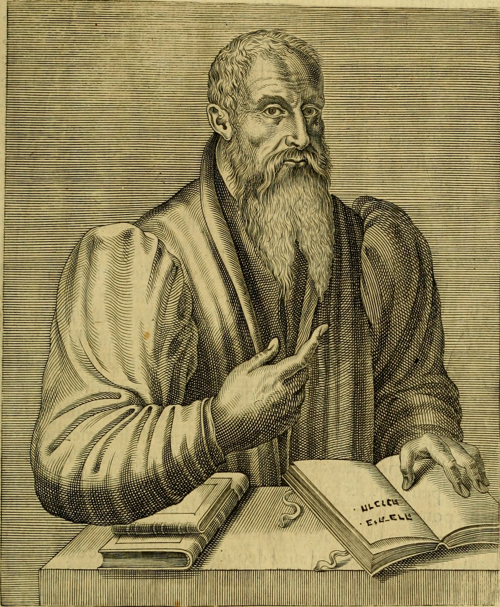 Guillaume Postel, from tome 3, folio 588 recto of Les vrais pourtraits et vies des hommes illustres grecz, latins et payens (1584) by André Thevet.